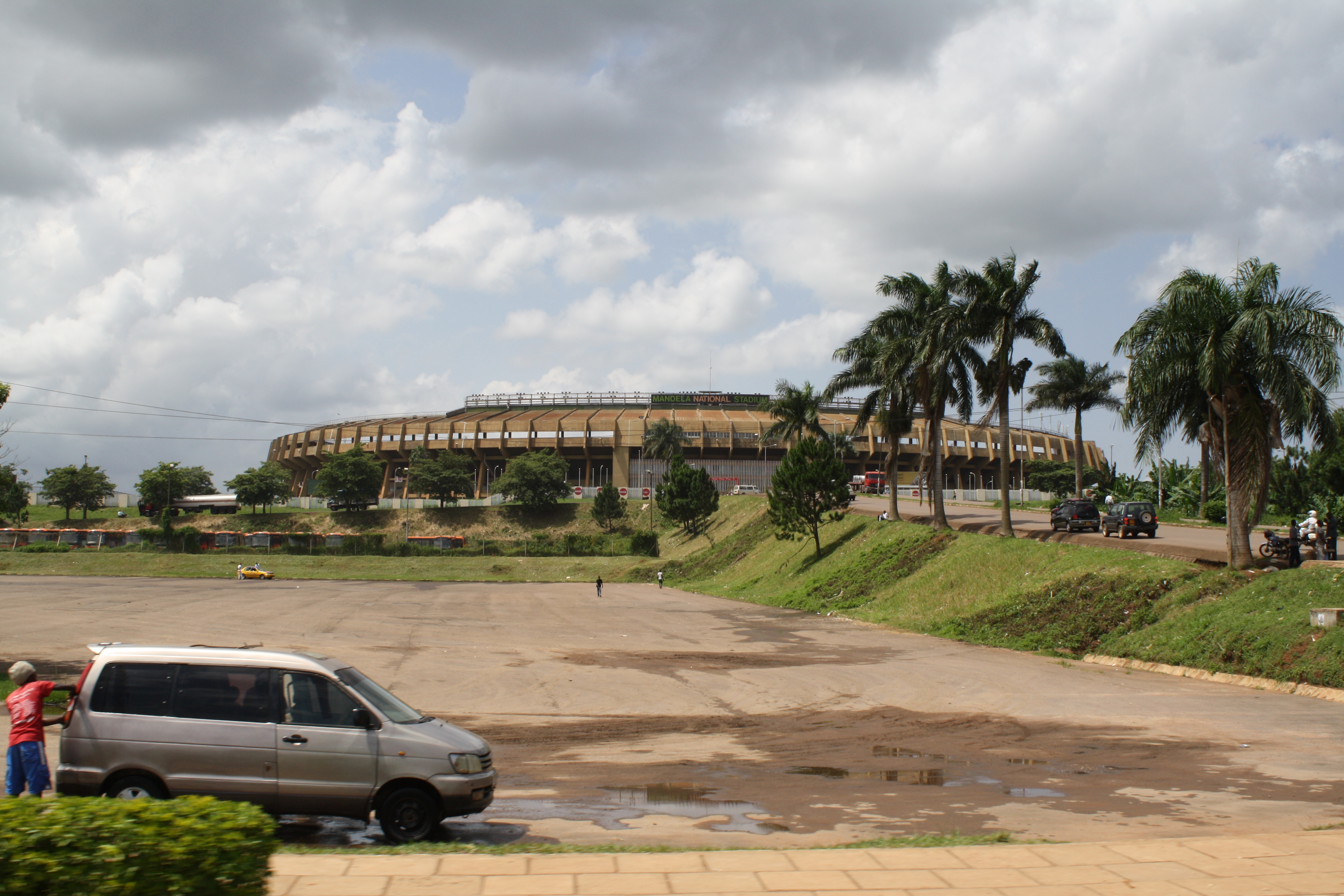 Ugandas largest stadium